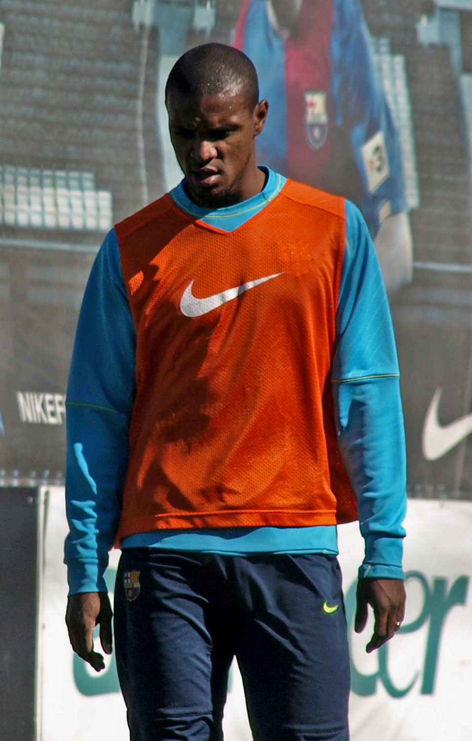 Éric Abidal (born July 11, 1979 in Lyon) is a left-sided French football defender of Martiniquean descent who currently plays for FC Barcelona in La Liga.